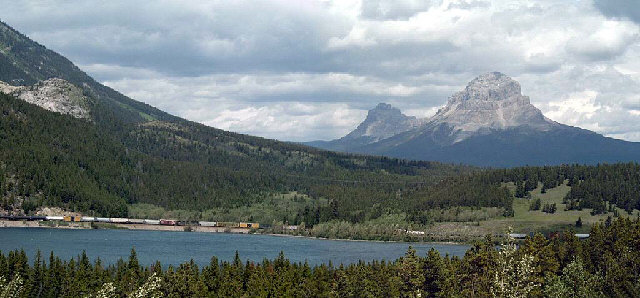 Crowsnest Mountain and Seven Sisters (to the left) in the Canadian Rockies. Picture (probably) taken from Highway 3 above Crowsnest Lake looking north (NNE), some 5 km east of Crowsnest Pass, thus Crowsnest Pass is not in the picture.